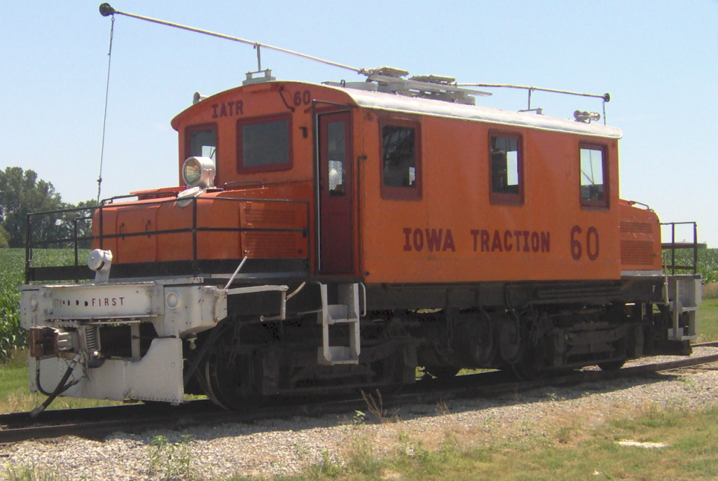 Iowa Traction locomotive number 60 at AGP in Mason City, Iowa